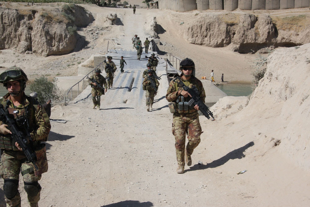 Soldiers of the Italian Army Sassari Mechanized Brigade on patrol in Afghanistan.